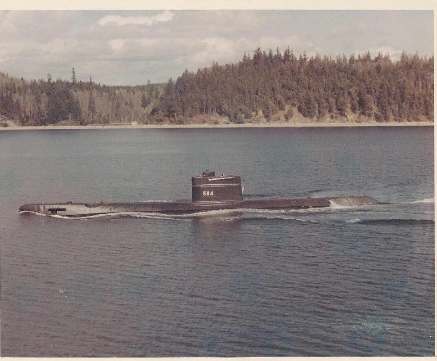 Trigger (SS-564) circa 1971 up around The Puget Sound area of Northen Washington State or Southern Vancouver Island...during the Mark 48 Torpedo test and evaluation trials.